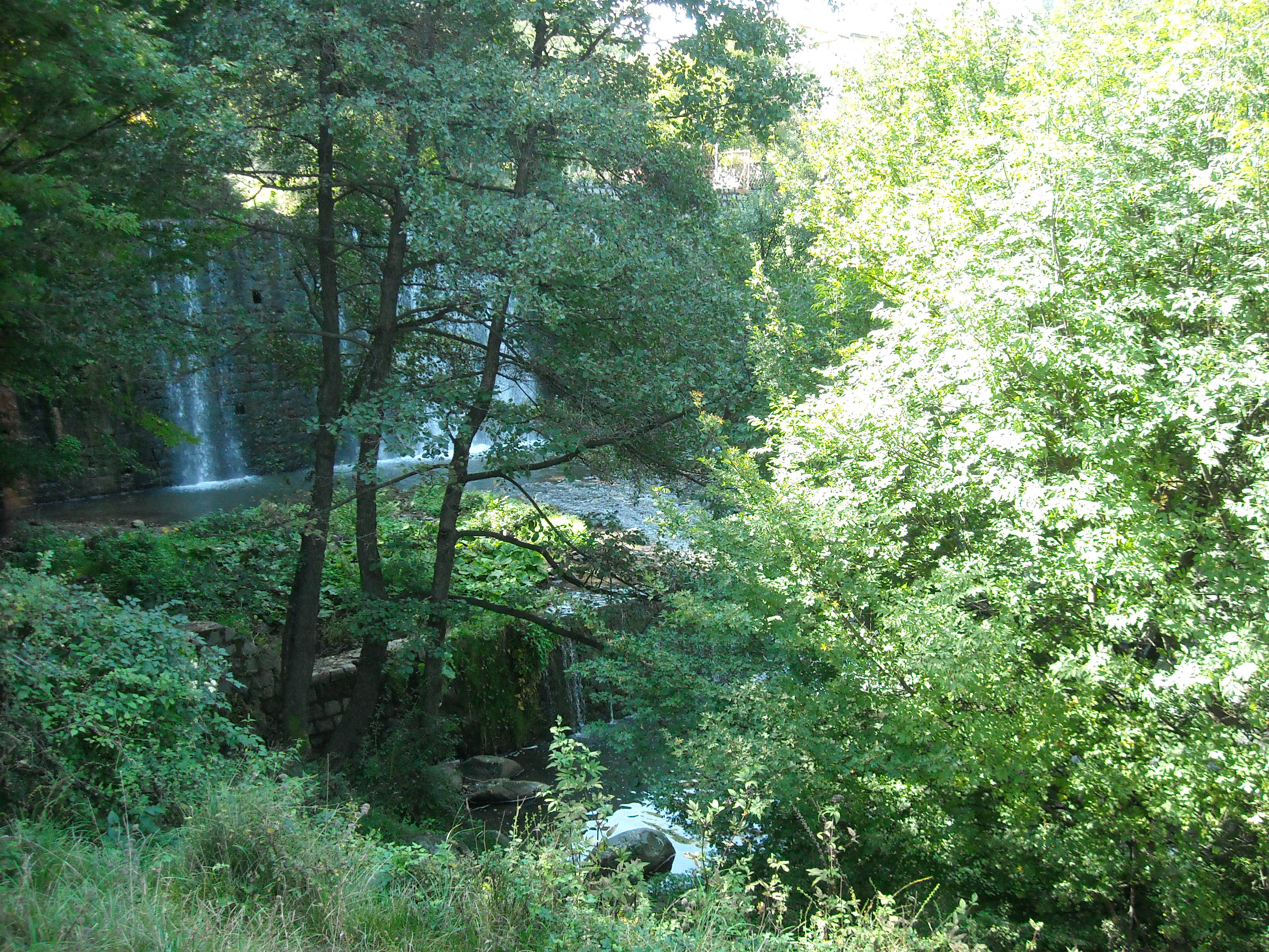 Bistritsa river, over Pancharevo, Sofia